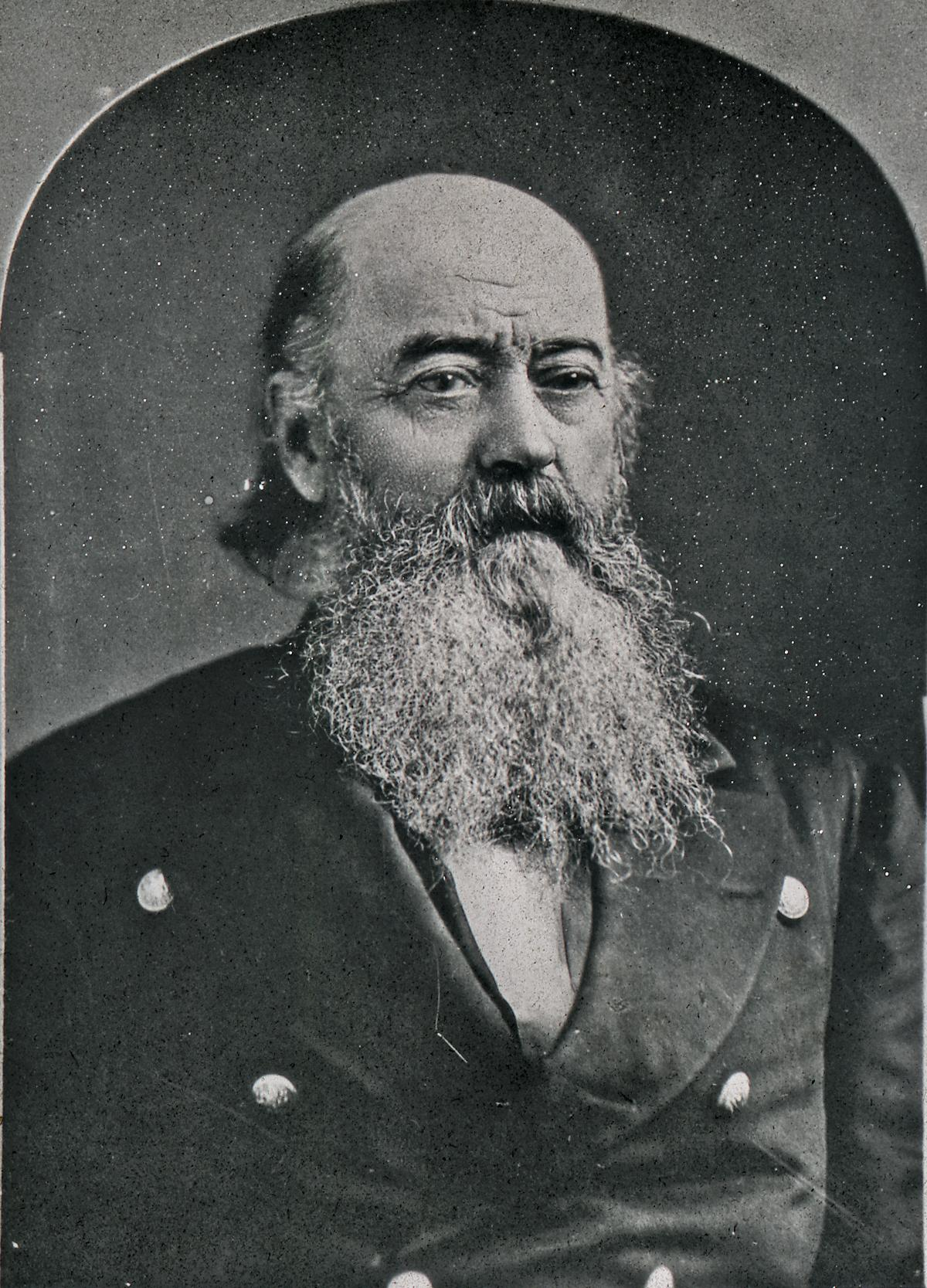 Image Title: Joseph L. Meek Description/Notes: Early settlement of Oregon Original Format: Lantern slides Original Collection: Visual Instruction Department Lantern Slides Item Number: P217: set 38 no.23